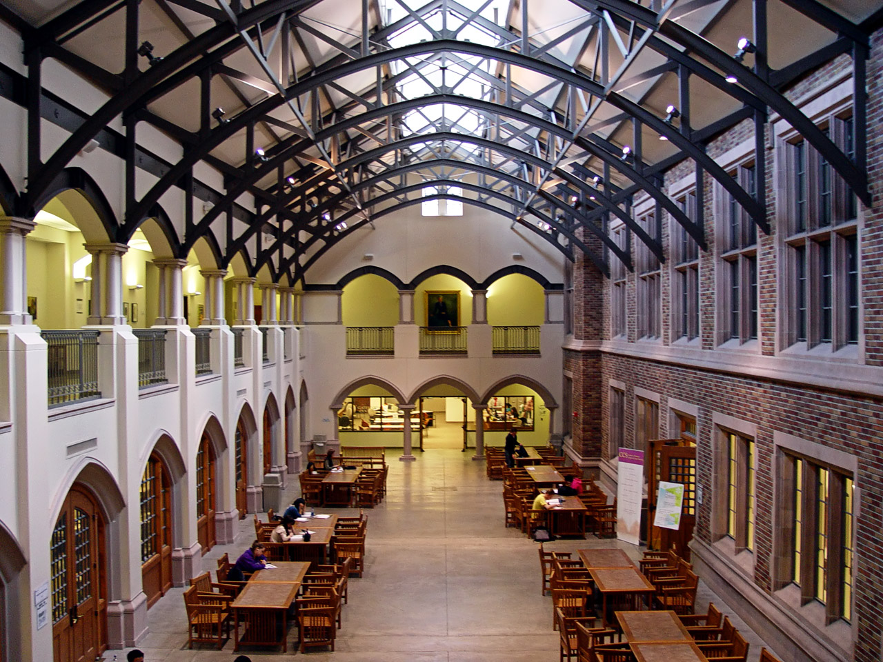 Interior, Mary Gates Hall, University of Washington, Seattle, Washington